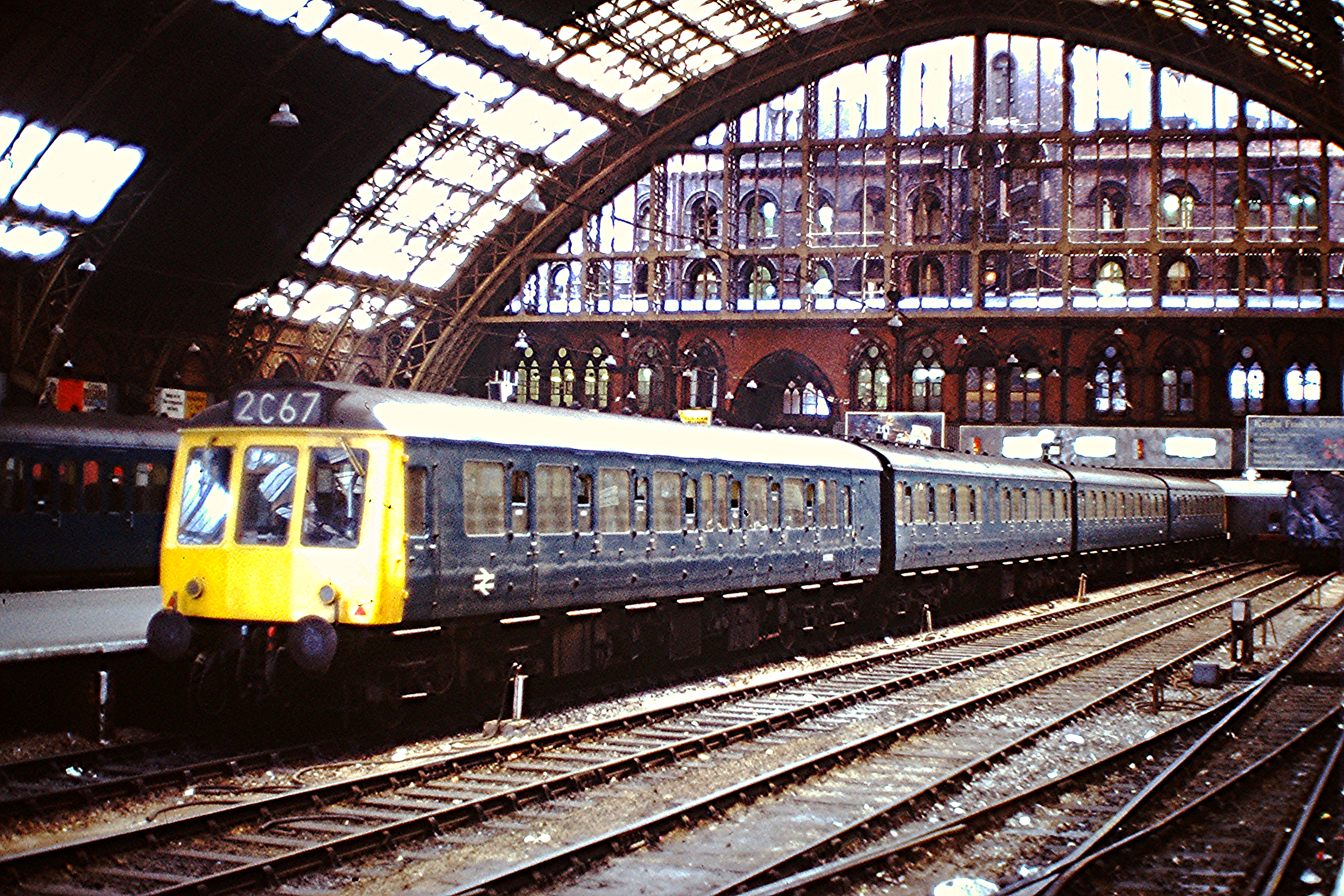 BR (Derby) Class 127 4-car Suburban dmu Nos.M51592 (Class 127), M59597 (186), M59640 (186), M51644 (Class 127) in Rail Blue with all-yellow front ends gently rumbling away at St Pancras before departing for Bedford (Midland Rd), 07/75. Scanned slide taken with a Kowa SET.